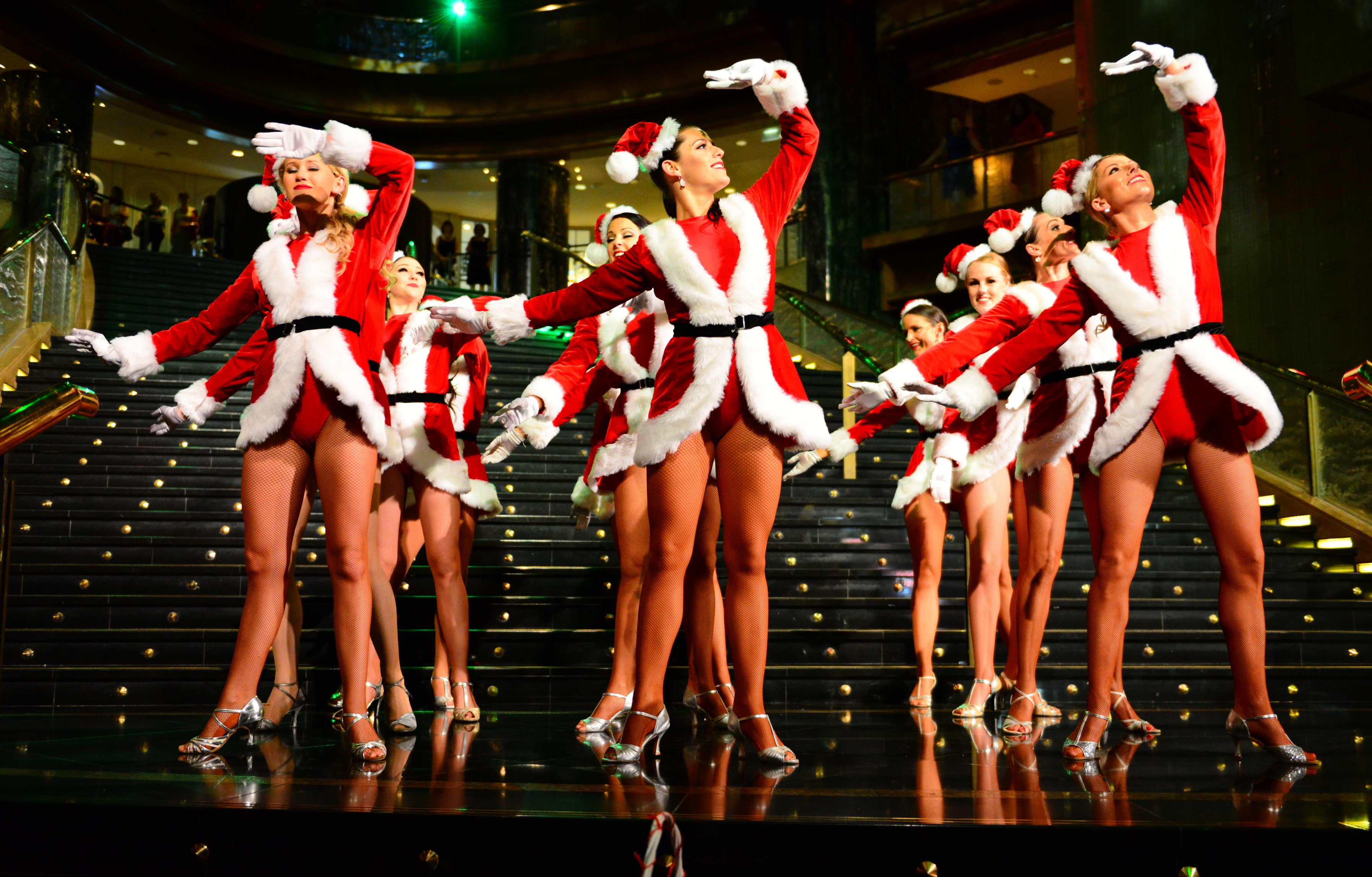 Christmas Belles at Crown